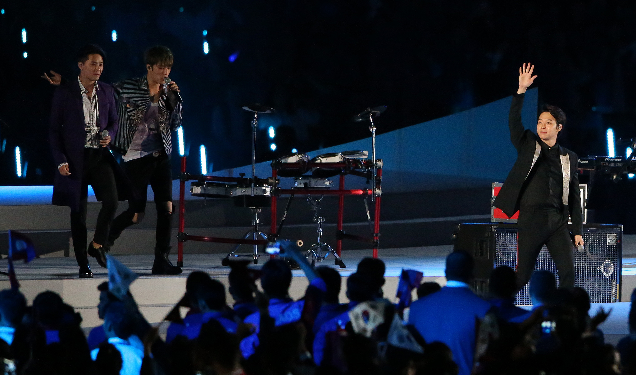 Incheon Asian Games 2014 Opening Ceremony Incheon Asiad Main Stadium September 19, 2014 Incheon Ministry of Culture, Sports and Tourism Korean Culture and Information Service ( Official Photographer : Jeon Han This official Republic of Korea photograph is licensed as free content, so while restrictions such as personality or privacy rights may apply, in general, manipulations are allowed. If you want a photograph without a watermark, you may ask via Flickr e-mail. 2014 인천 아시아경기대회 개막식 인천아시아드 주경기장 2014-09-19 인천 문화체육관광부 해외문화홍보원 코리아넷 전한